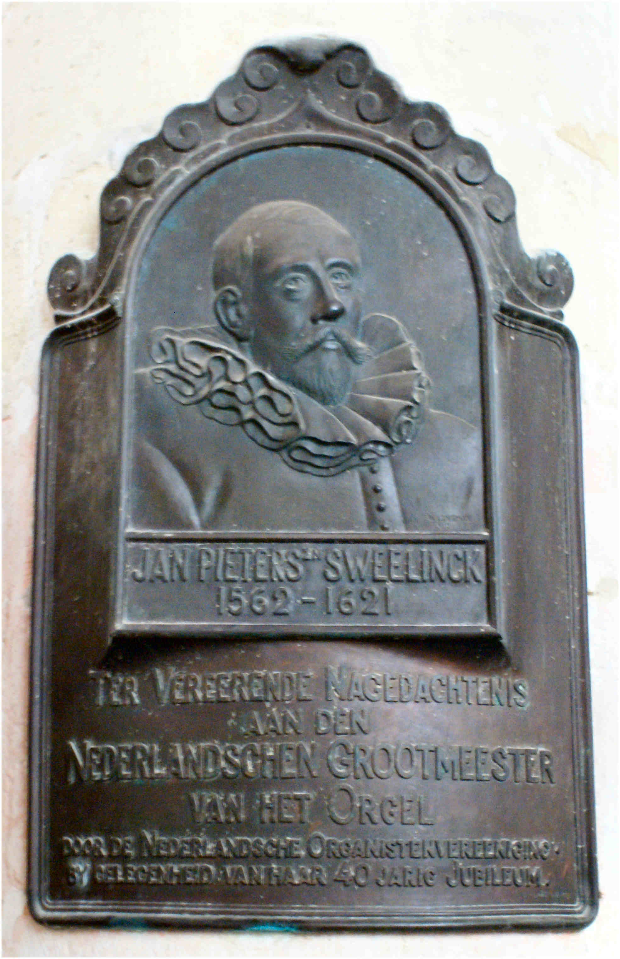 Memorial of Sweelinck,, in Oude Kerk, Amsterdam